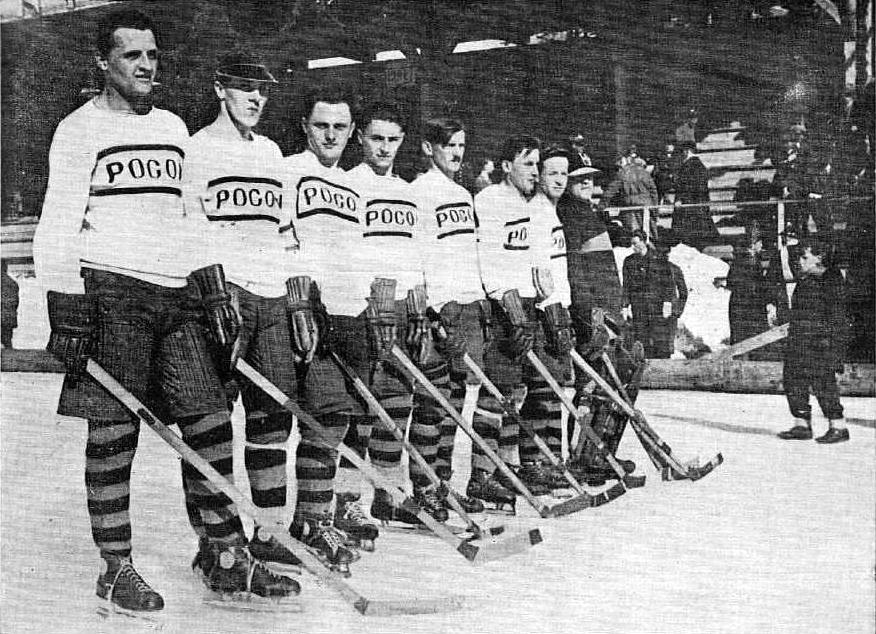 Ice hockey team of Pogoń Lwów, 1929 polish runner-up